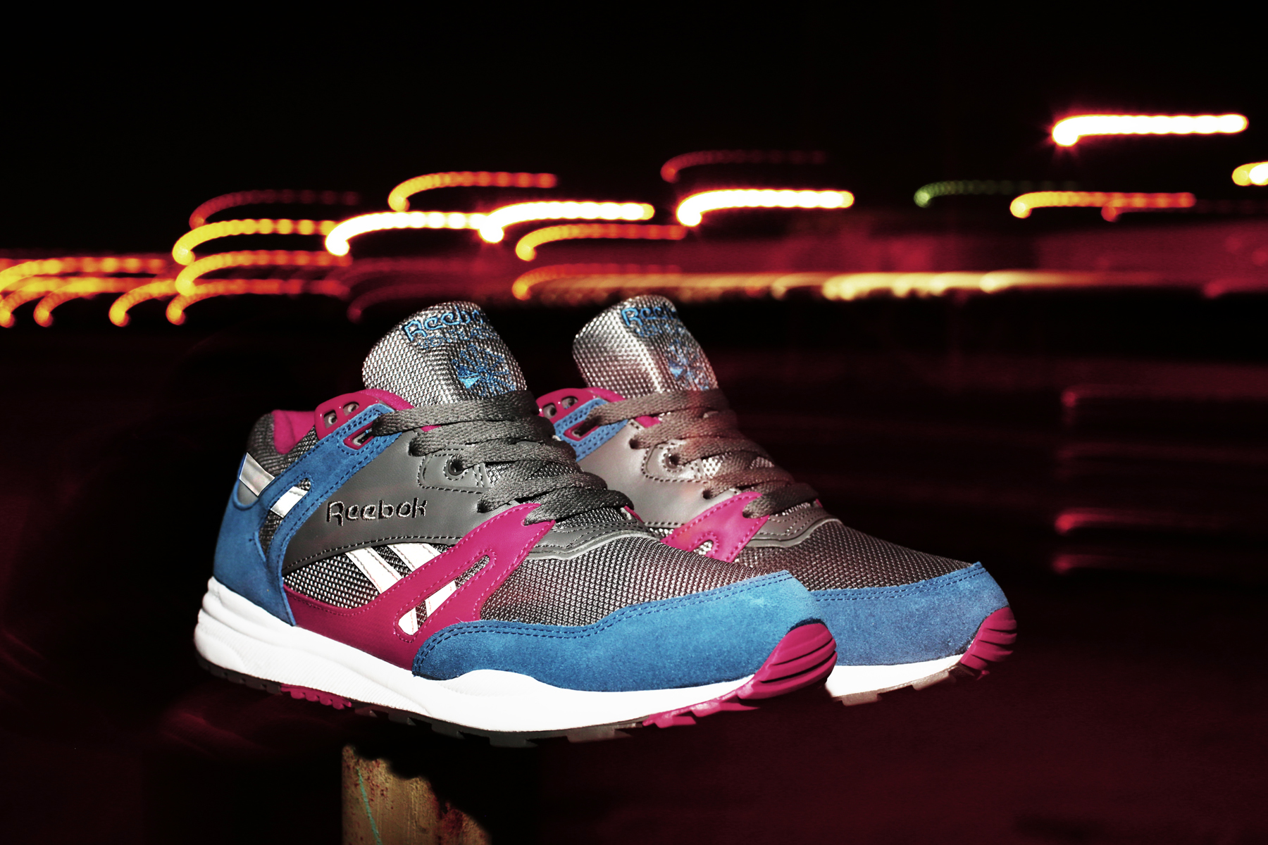 Ventilator Night Vision Pack